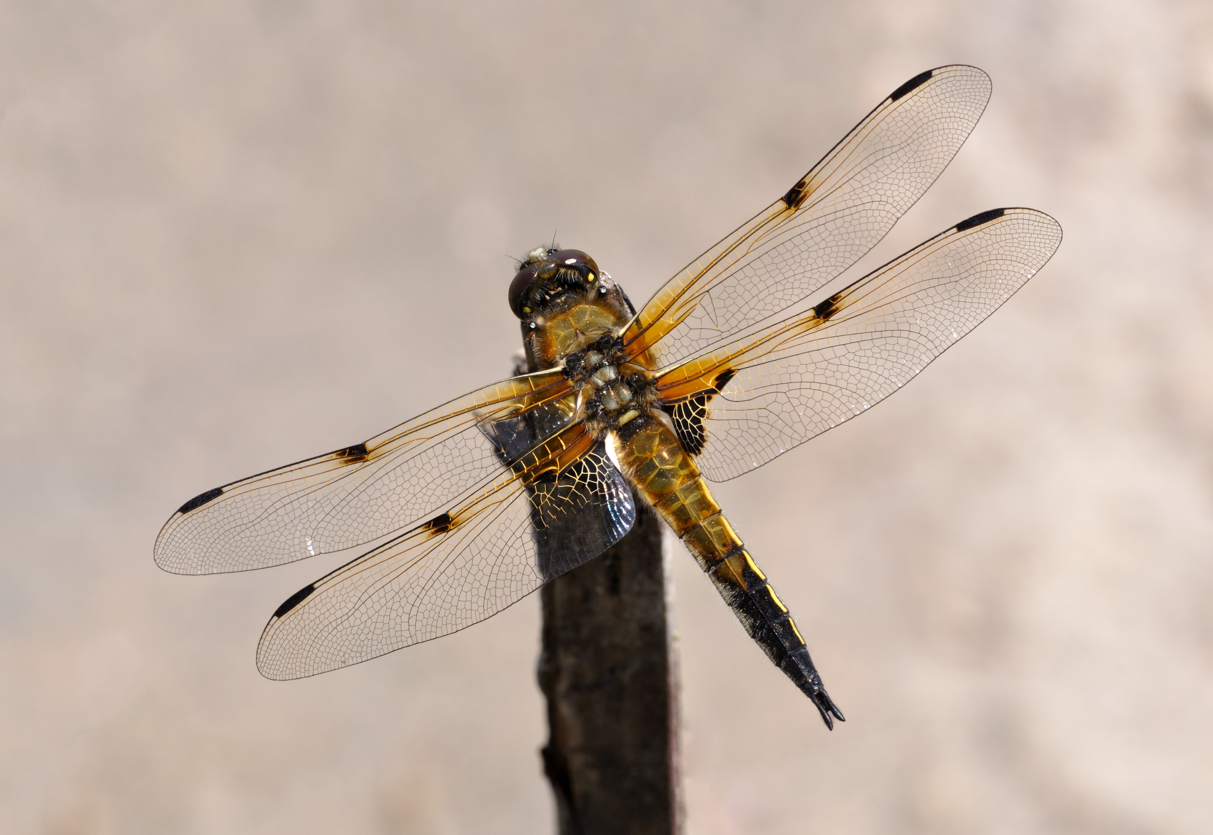 Male Four-spotted Chaser (Libellula quadrimaculata) near the old airstrip, Frankfurt, Germany.